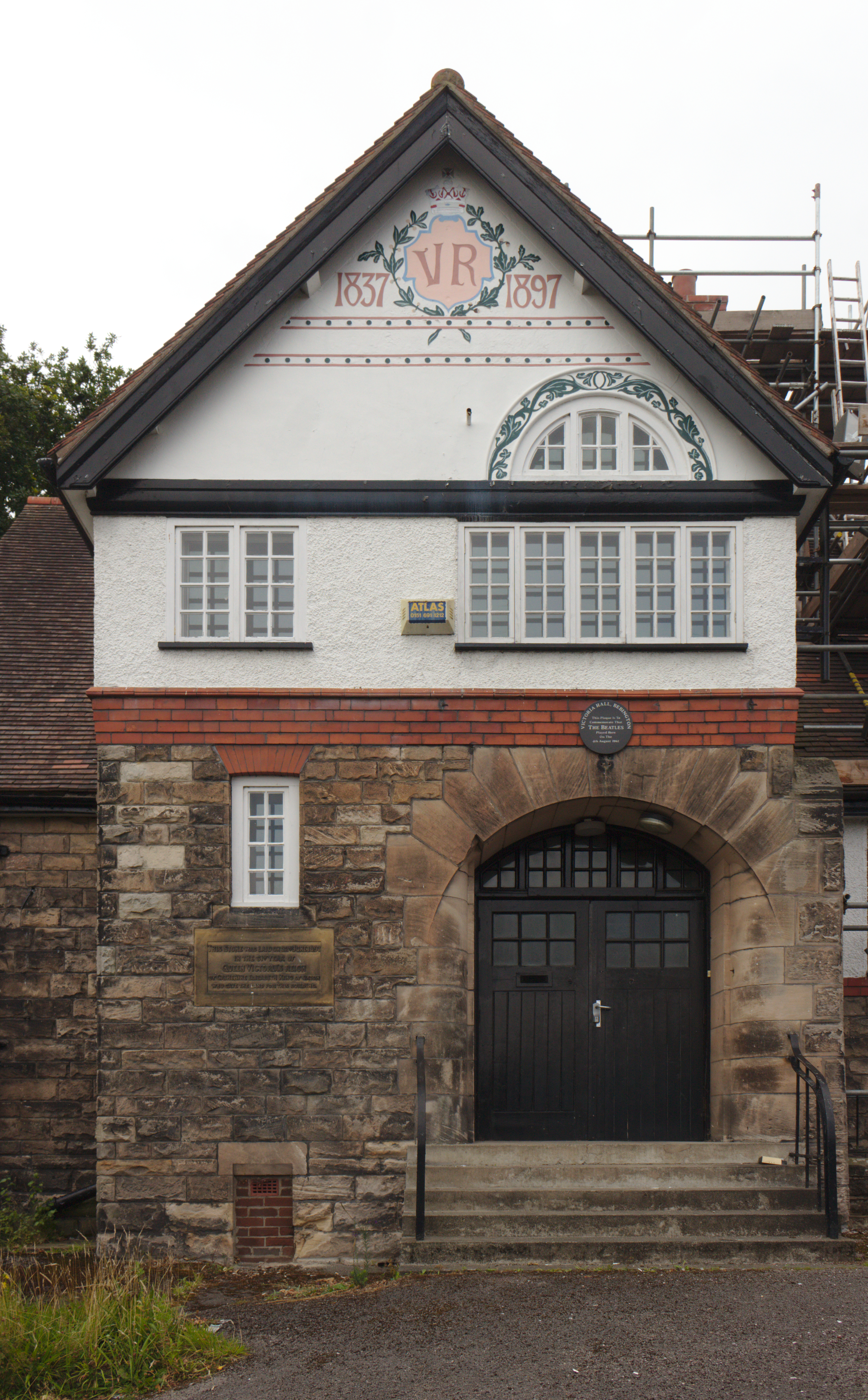 Entrance with foundation stone and Beatles plaque